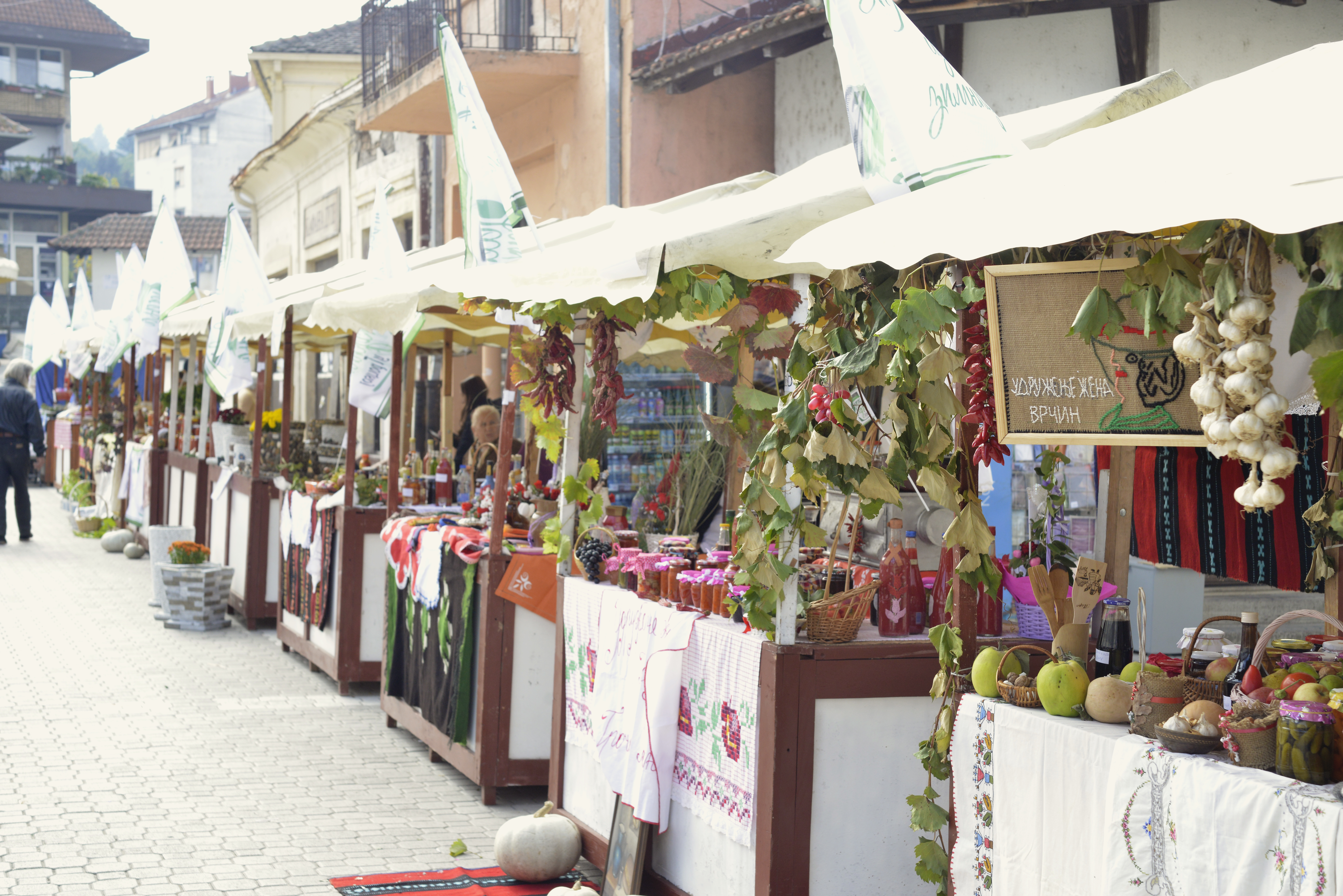 Winter Stores Festival in Grocka's Čaršija (Grocka, a town near Belgrade)